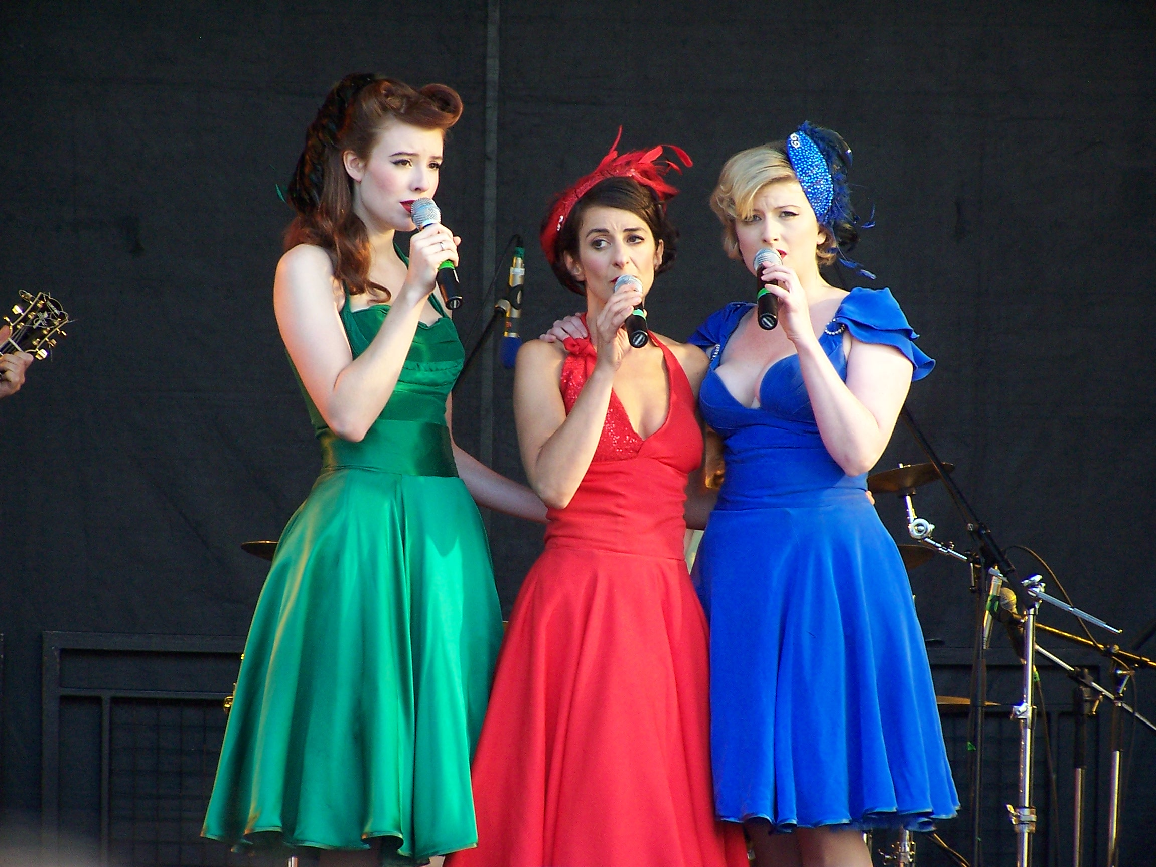 The Puppini Sisters appearing at an open air concert which was part of the City of London Festival in 2008